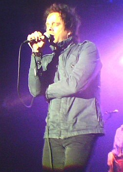 Photo of PJ Olssen taken with permission at Alan Parsons concert in Bratislava, Slovakia 18 March 2010